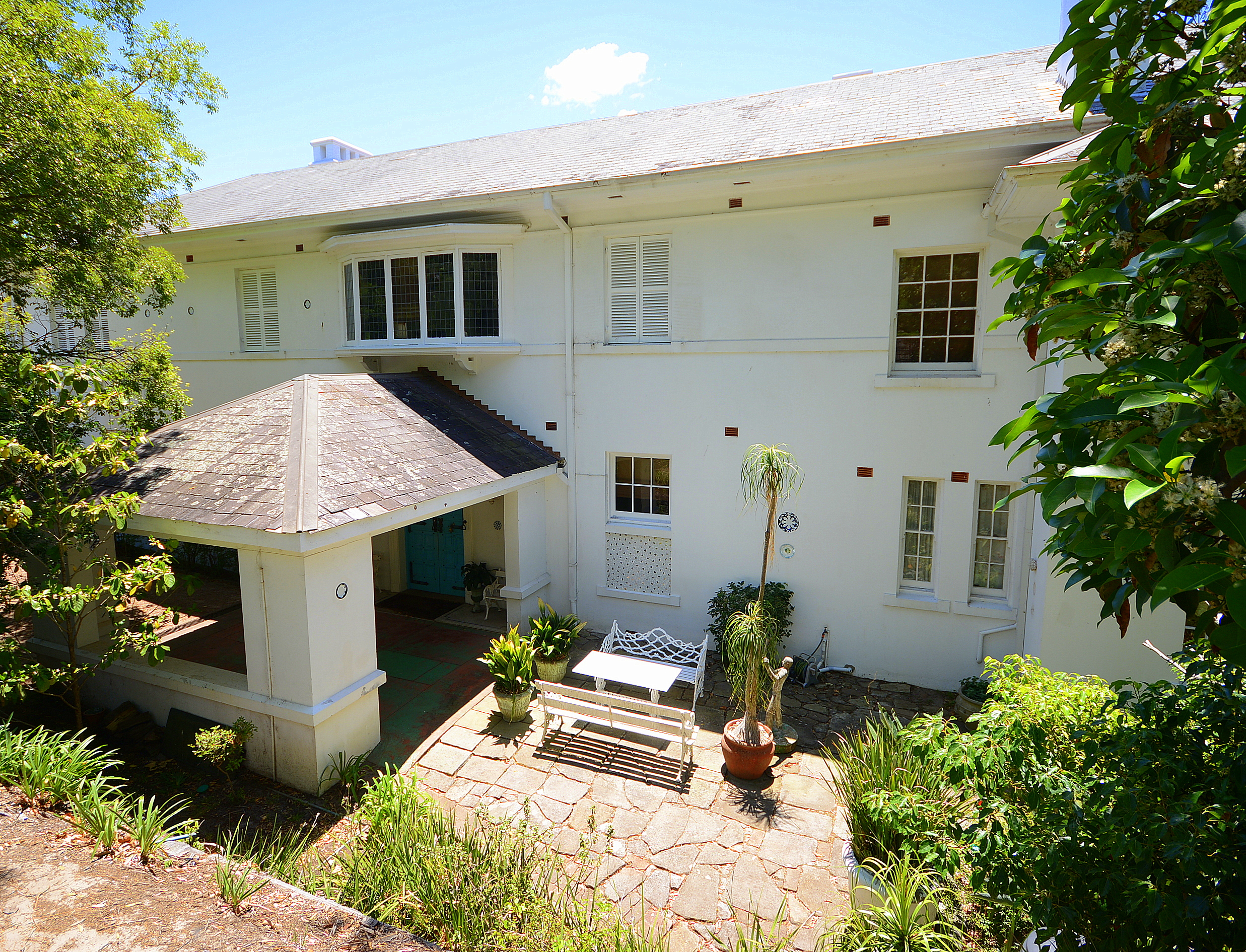 Wirian, Victoria Road, Bellevue Hill, Sydney (home of Martin Sharp 1978-2013)